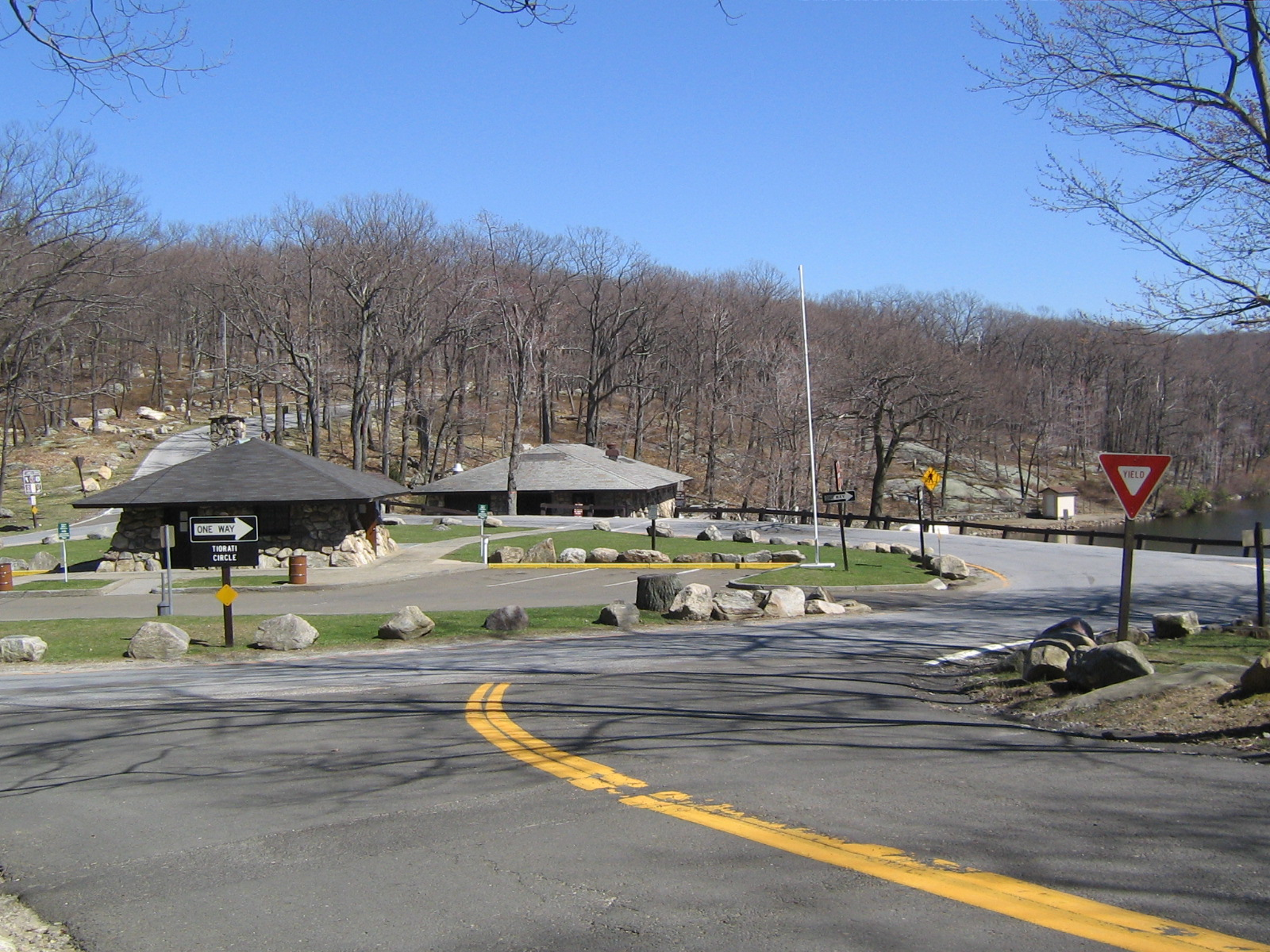 The eastern terminus of Arden Valley Road at Tiorati Circle and Lake Tiorati in Harriman State Park. Tiorati Circle is also the western terminus of Tiorati Brook Road.